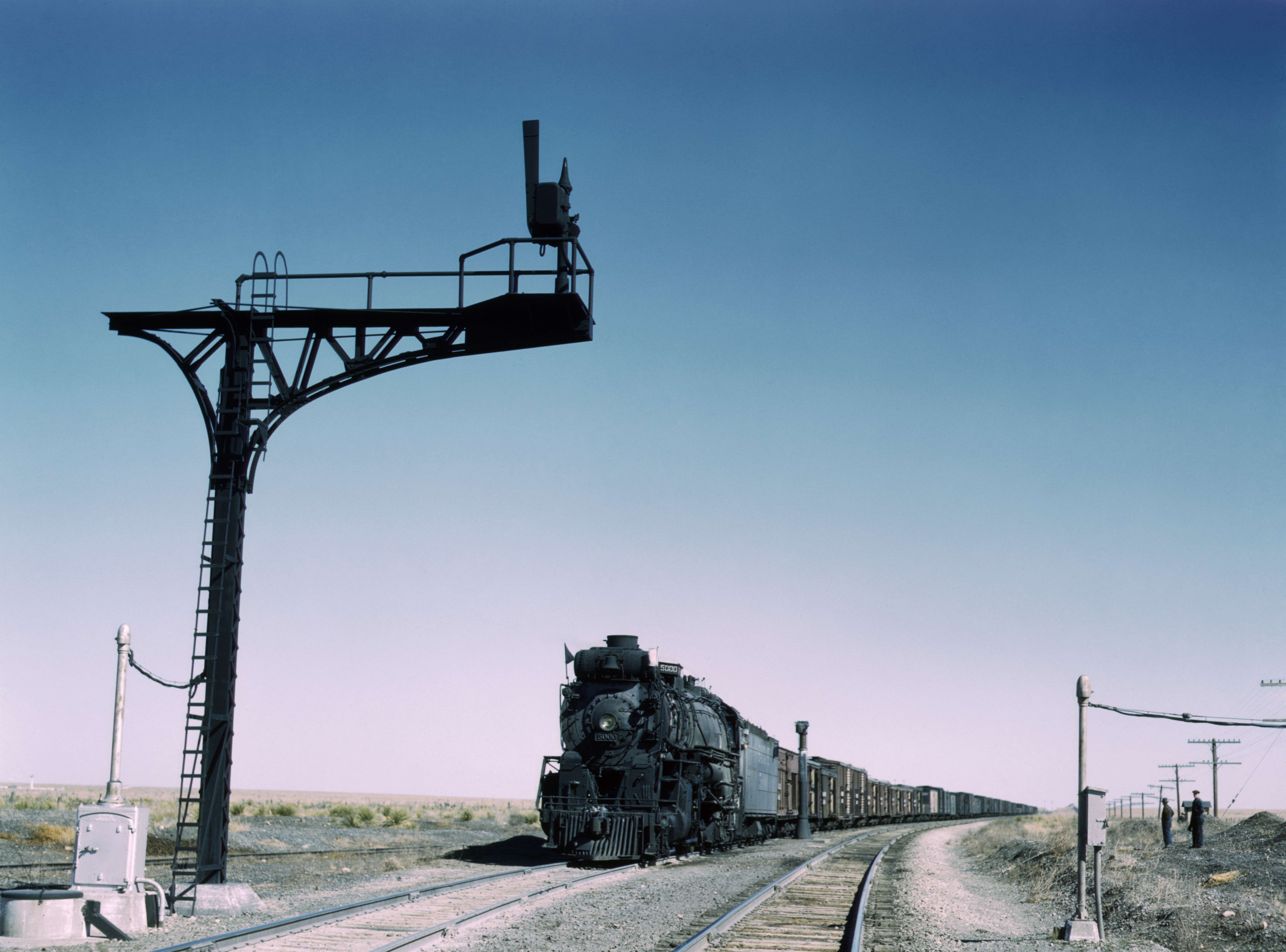 West bound Santa Fe R.R. freight train waiting in a siding to meet an east bound train, Ricardo, New Mexico.